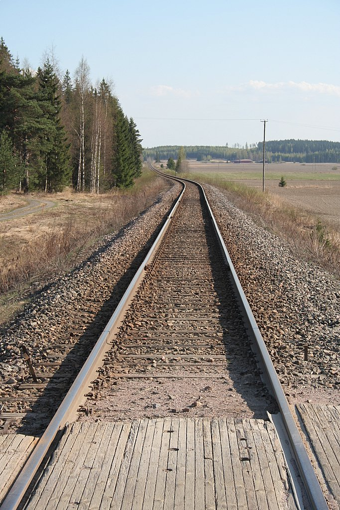 The Lahti–Loviisa railway in Pennala, Orimattila, Finland. In 1900 a narrow gaugage railway between the cities Lahti and Loviisa was opened. The route was operated by a private company. Later the railway become state-owned and the gaugage was widened to 1,524 mm (5') in 1960. Finland adopted a 5' railway from Russian empire when it was an autonomous Grand-dutchy. Originally 5' gaugage became to Russia because of an American engineer, who became from the Southern states of the USA. The picture is taken in the village of Pennala in the municipality of Orimattila. Pennala has had a platform long time ago.